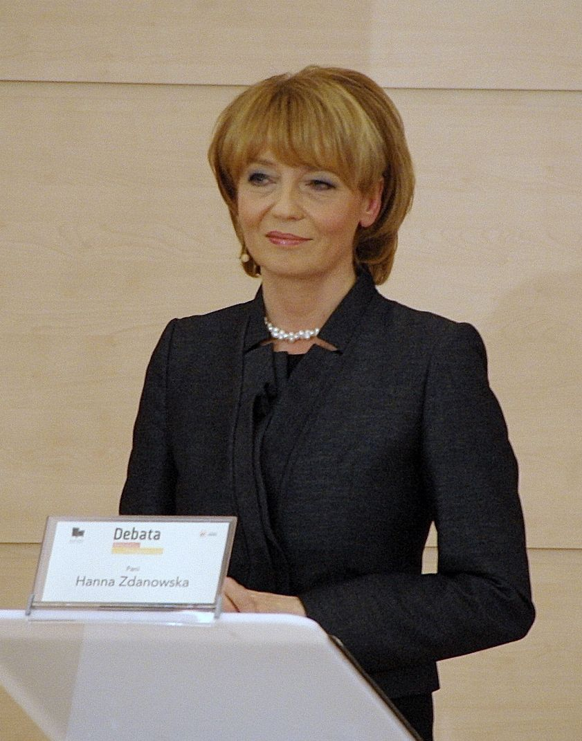 Hanna Zdanowska, Mayor of Łódź